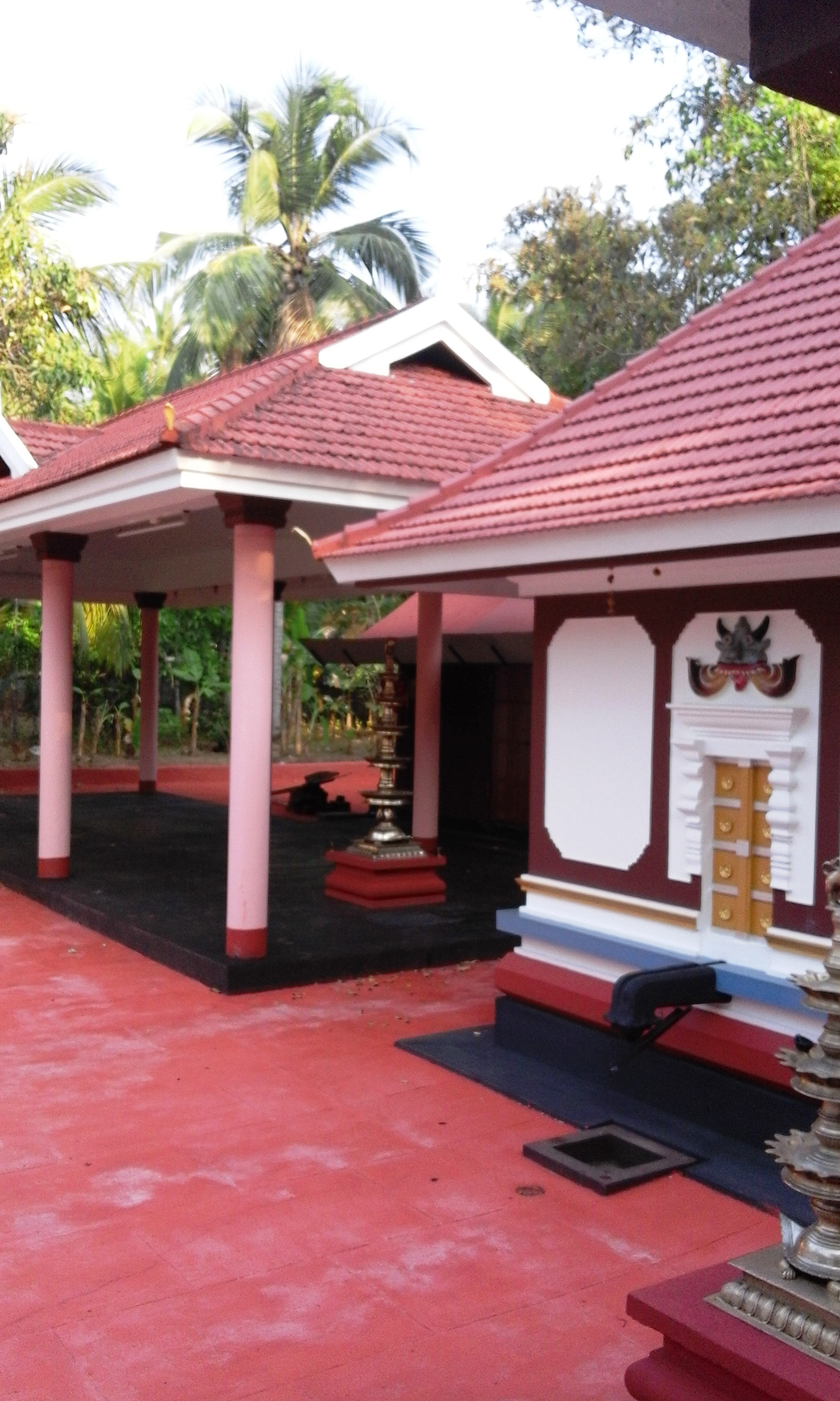 Chavakkad, Thrissur district, Kerala Province, India.